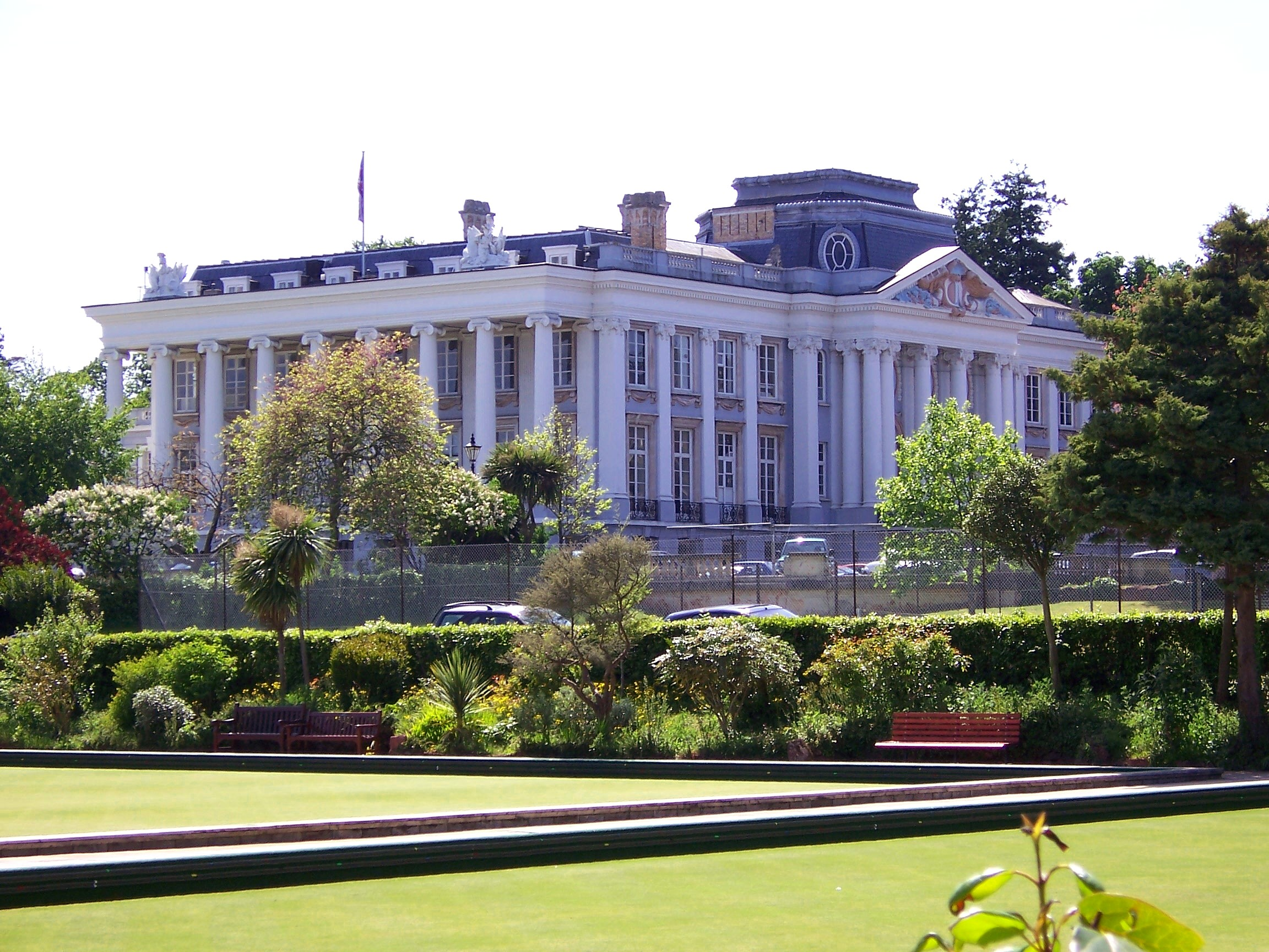 View of Oldway Mansion from north east.